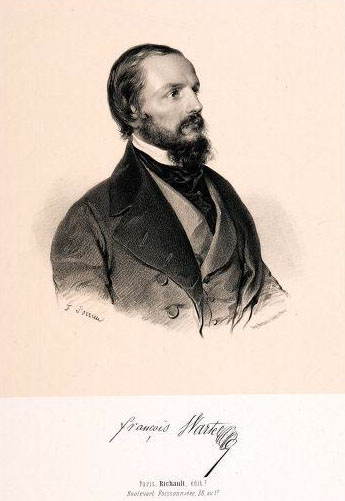 Pierre François Wartel (1806–1862), a tenor at the Paris Opera and vocal teacher